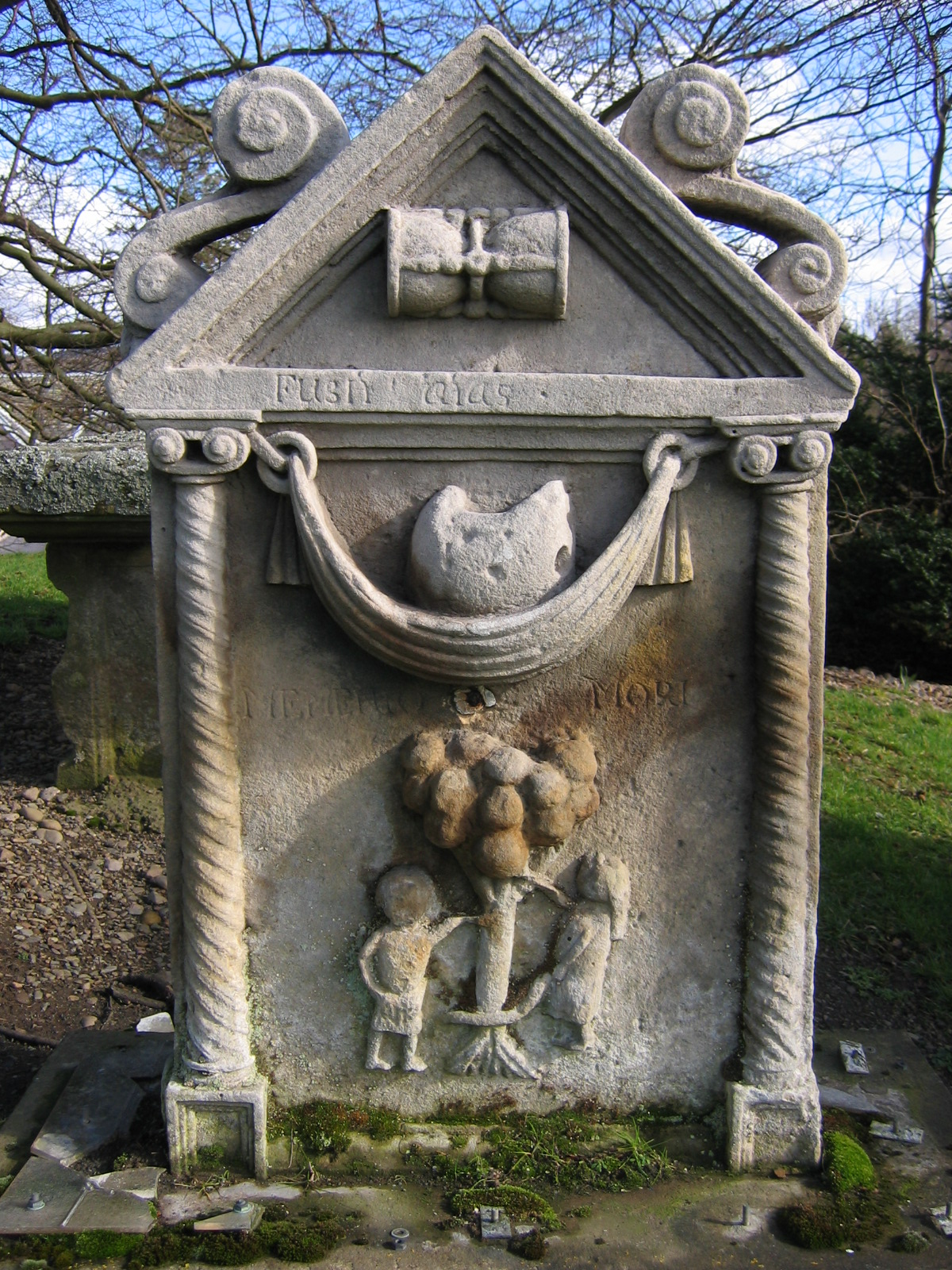 Gravestone depicting Adam and Eve, Lyne Kirk, near Peebles, Scottish Borders. Inscription reads: "Here lyes Janne Veitch daughter to John Veitch tennent in Hamiltoune who dyed the 31 of January 1712 aged 16 years & 6 weiks "Life is the road to death, And death Heaven's gate most be, Heaven is the throne of Christ, And Christ is life to me."